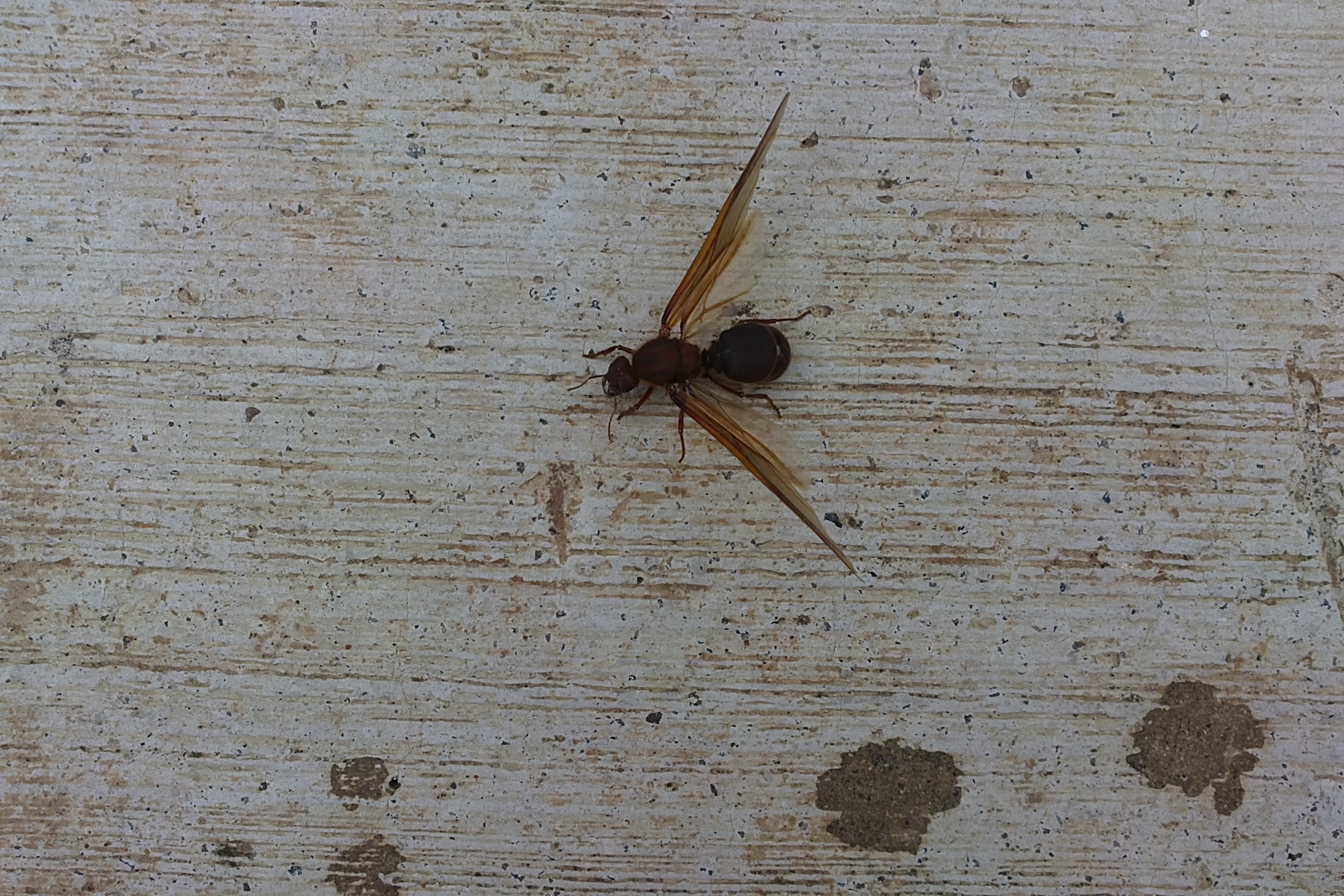 Zompopo de Mayo. Guatemala